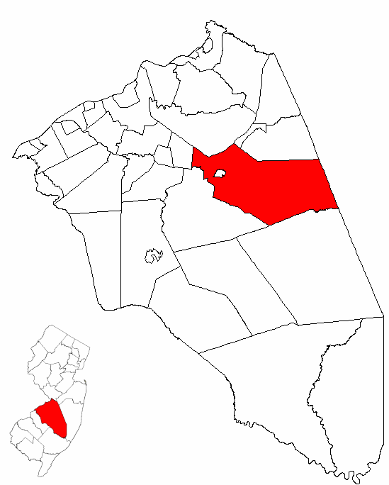 Map of Burlington County highlighting Pemberton Township